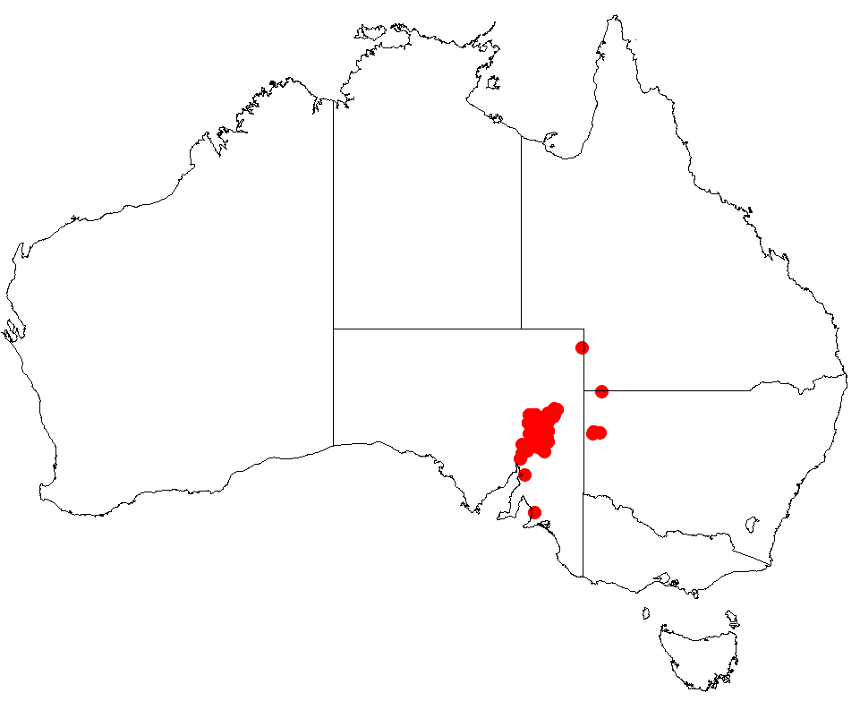 Hakea ednieana Occurrence data downloaded from Australasian Virtual Herbarium on 22 November 2018 using